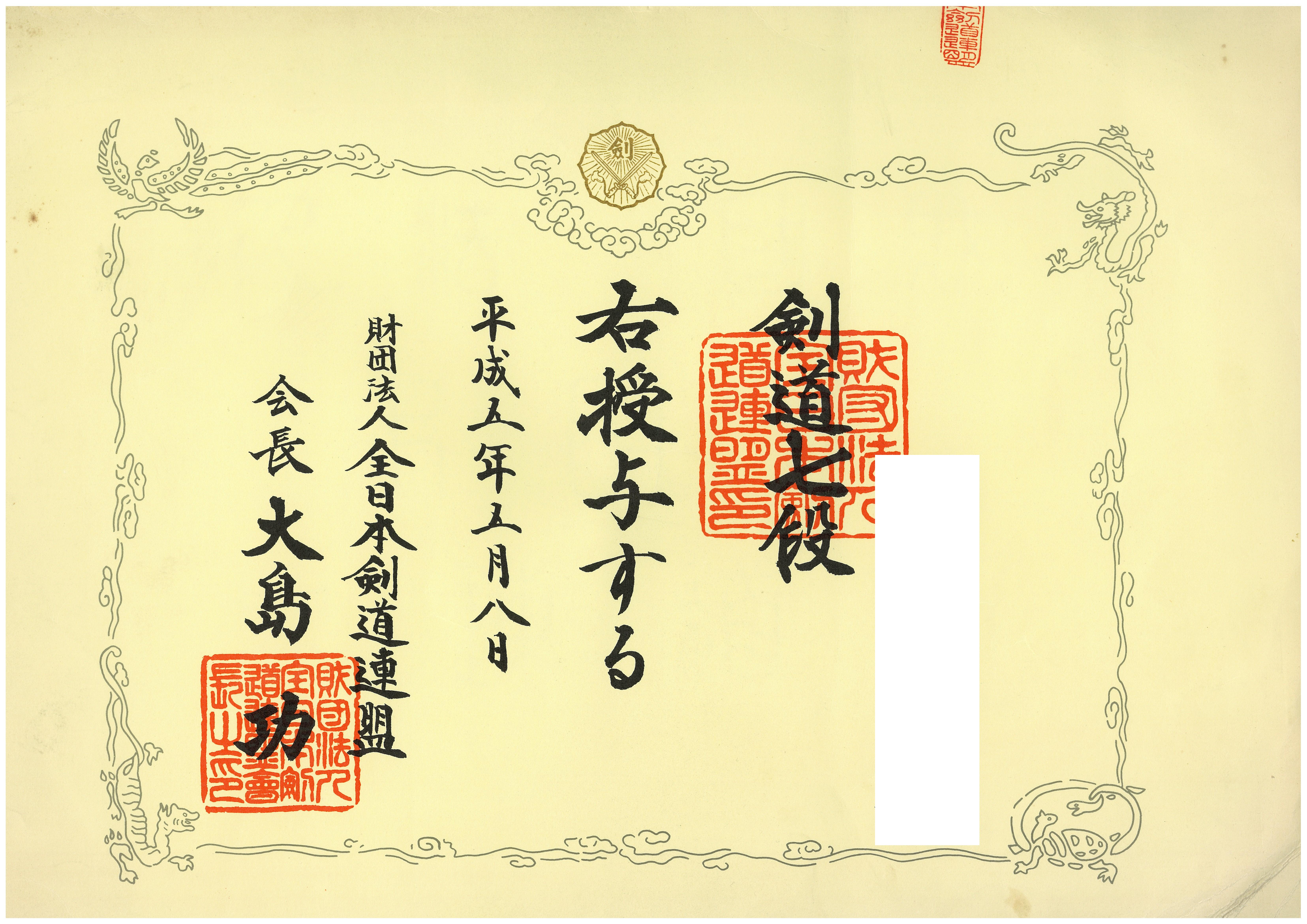 Certificate of 7th Dan in Japanese Kendo.